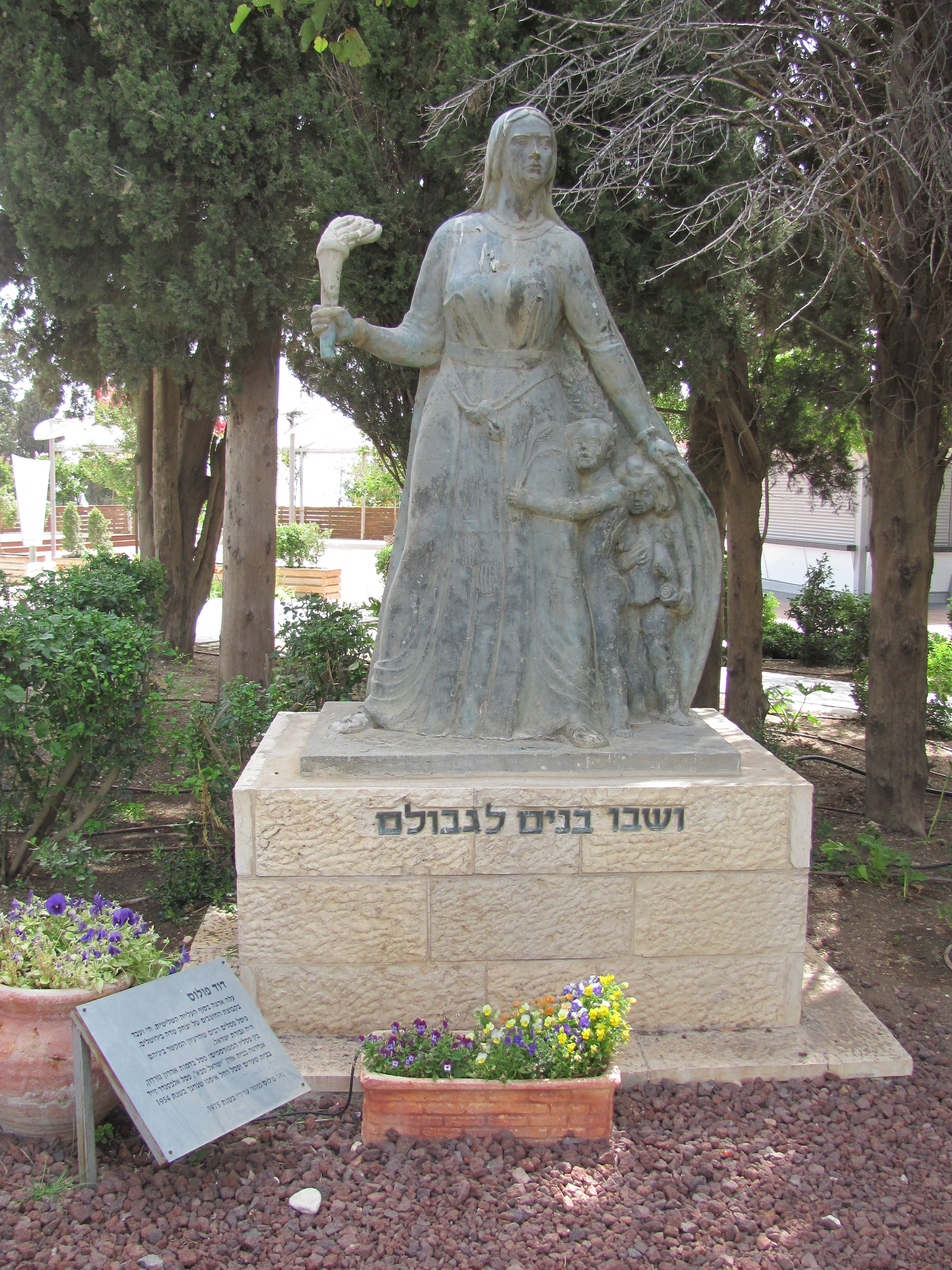 Statue of Rachel in Ramat Rachel.